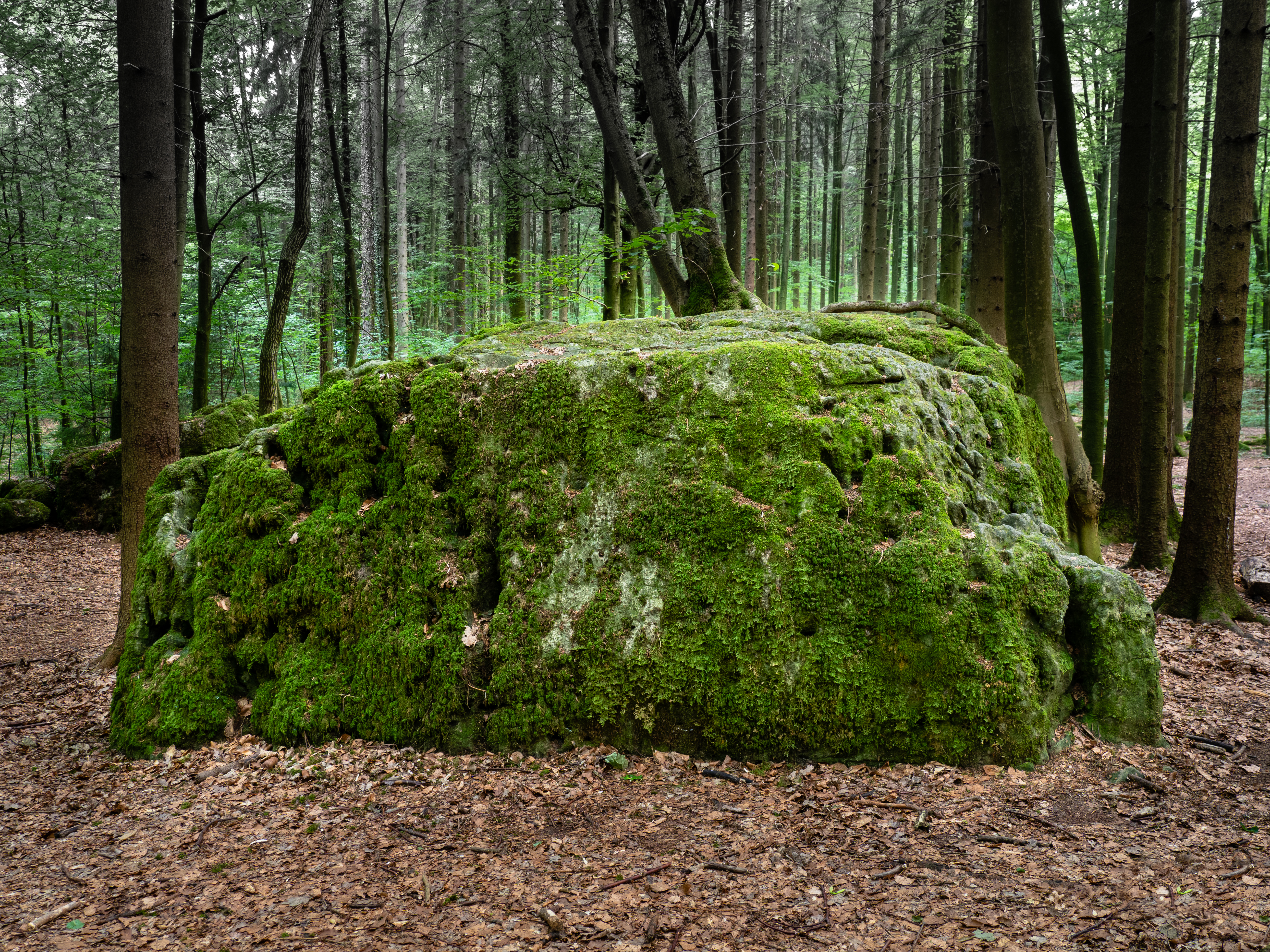 Druidenhain near Wohlmannsgesees